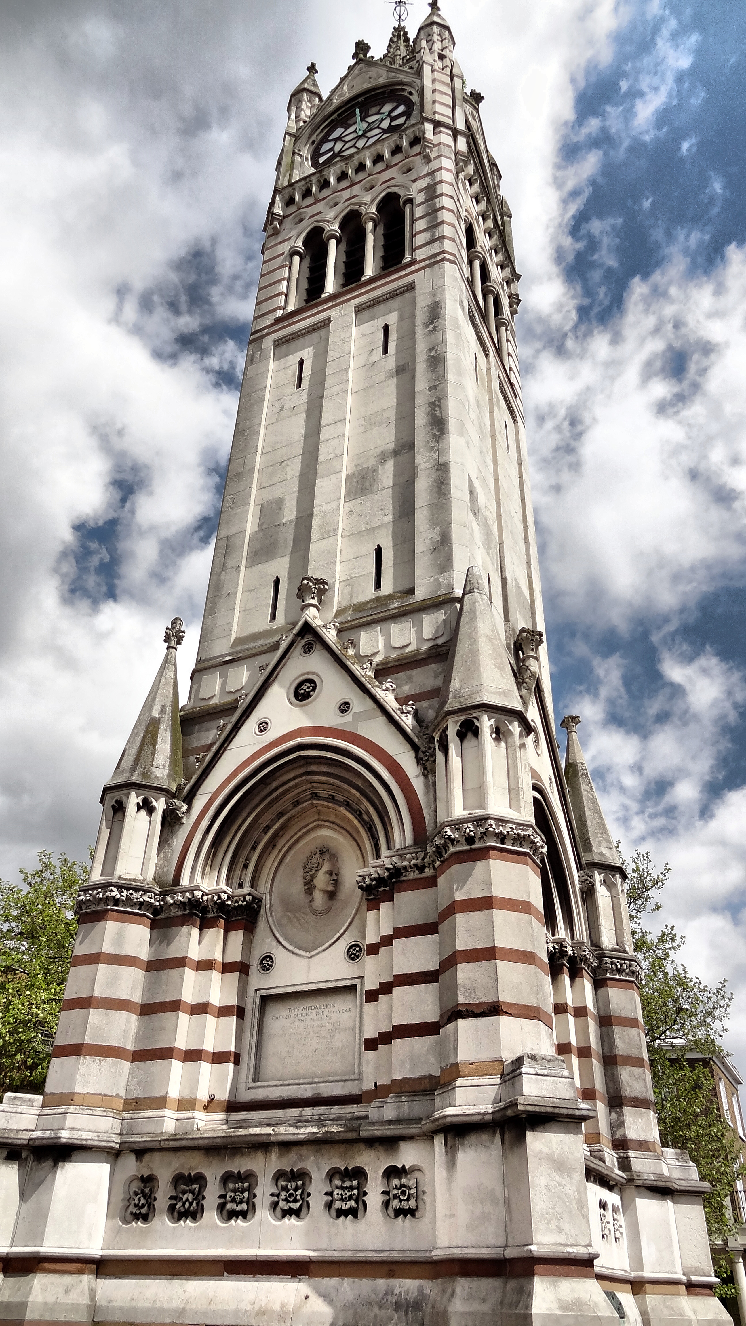 The Clock tower located top of Harmer St in Gravesend Kent